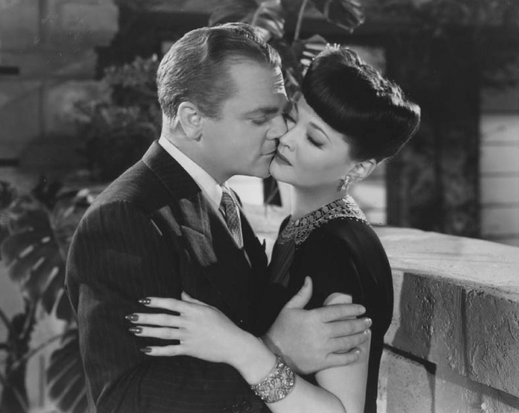 James Cagney & Sylvia Sidney in Blood on the Sun - cropped screenshot (original image : see source)